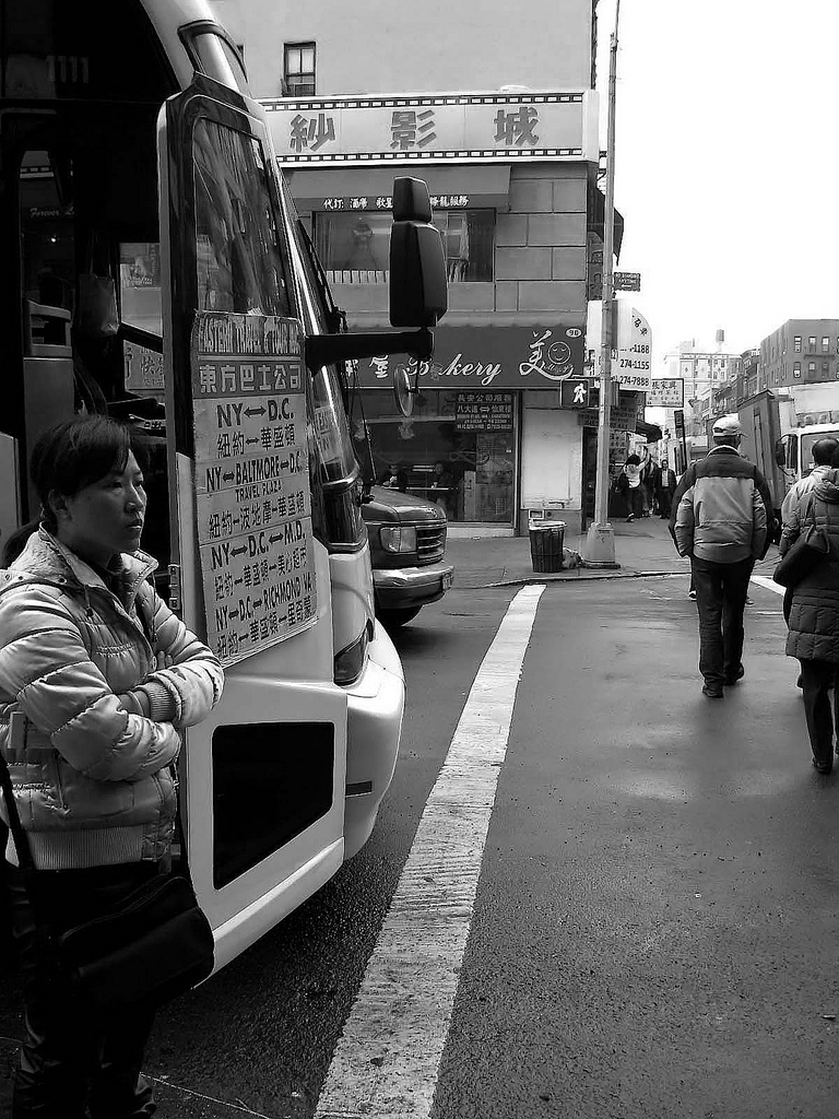 Chinatown bus stop, NYC.